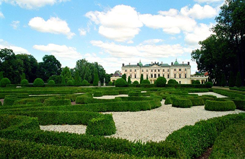 Parterre garden of the Branicki Palace in Białystok.